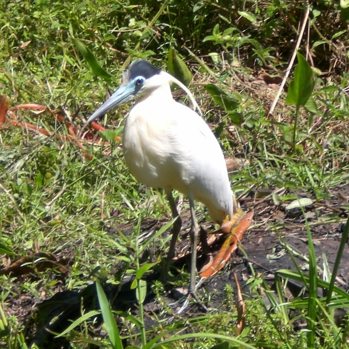 Capped Heron standing near to the edge of a pond.